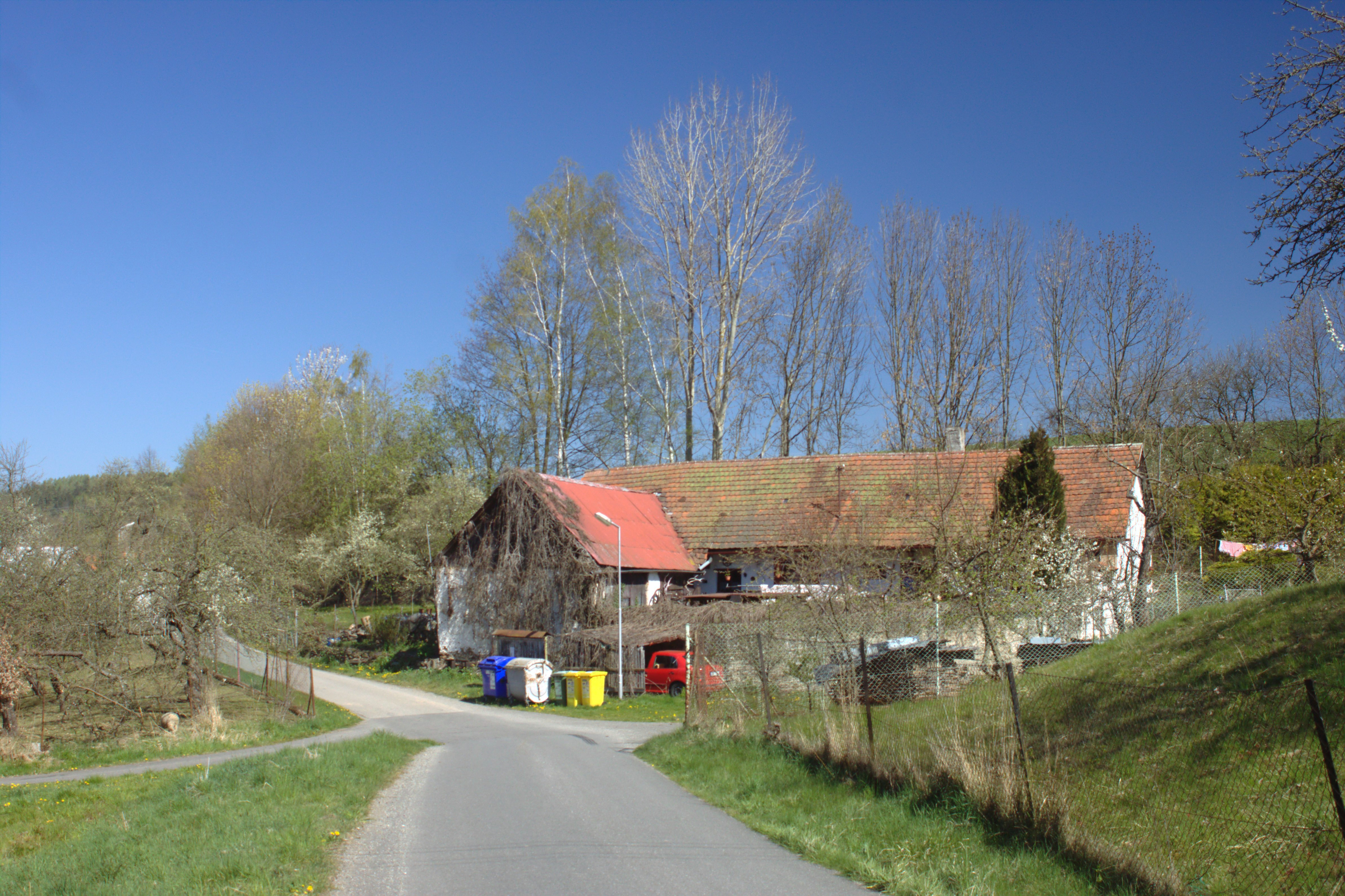 This photograph was created as a part of Wikiexpedition Mladá Vožice, a project supported by Wikimedia Foundation grant.